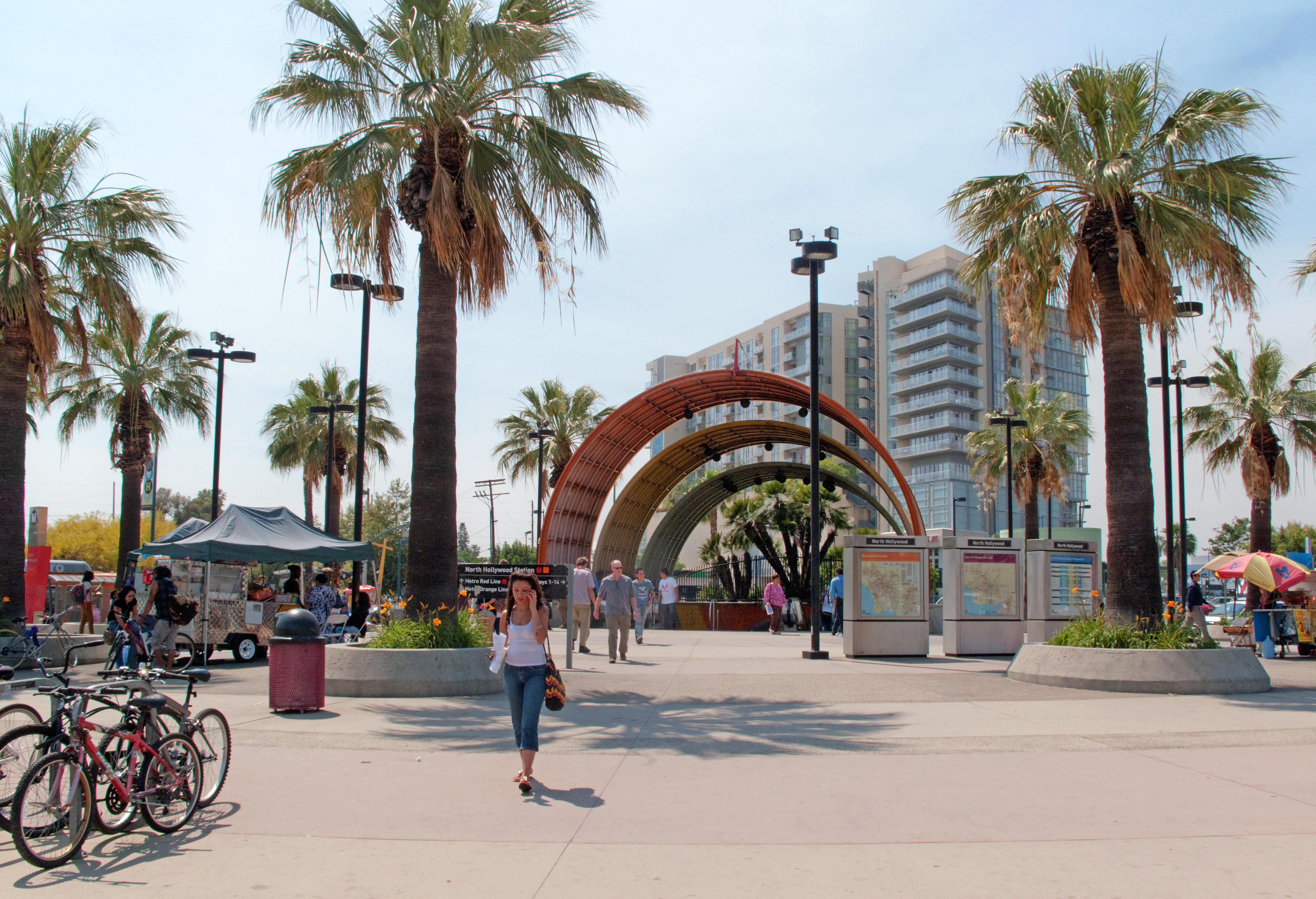 The plaza of the North Hollywood Metro station — in North Hollywood, Los Angeles, California. Eastern San Fernando Valley terminus of the Los Angeles Metro Red Line, from/to Hollywood, Downtown, and other MTA system lines. Across the boulevard is the start of the LACMTA Orange Line to the central and West Valley.